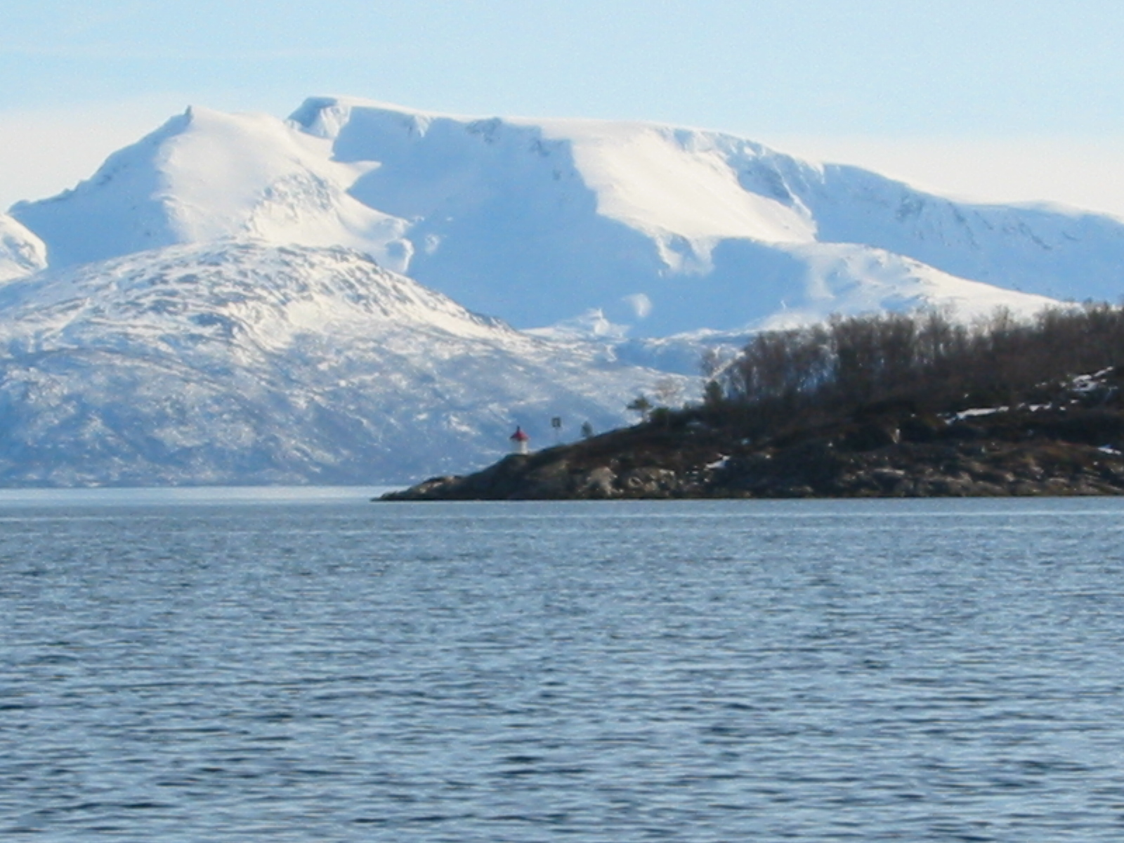 Ofotfjord, with mountains near Narvik, Norway.